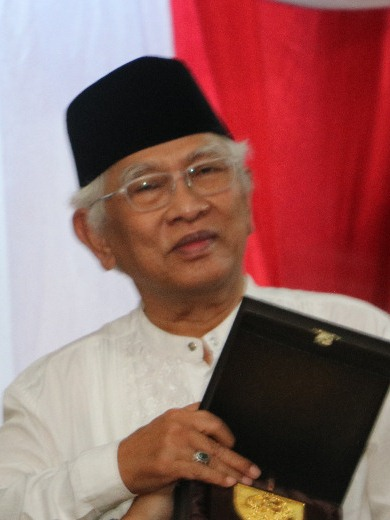 K.H. Mustofa Bisri or also known as Gus Mus is the leader of Pondok Pesantren Radhlatul Thalibin, Rembang.